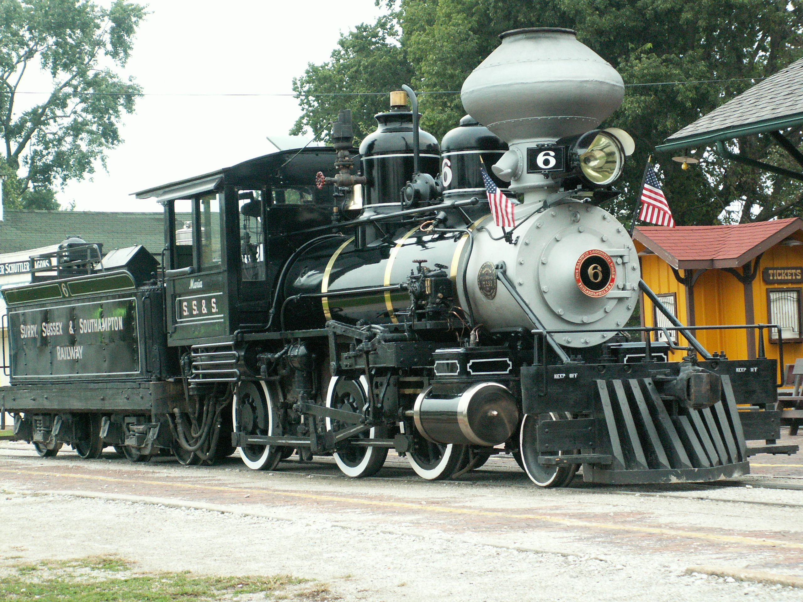 MCRR's Baldwin Mogul (2-6-0) posing for the camera outside of the "North Station" in Mount Pleasant, Iowa's McMillan Park, site of the Midwest Central Railroad and the Midwest Old Thresher's Reunion.